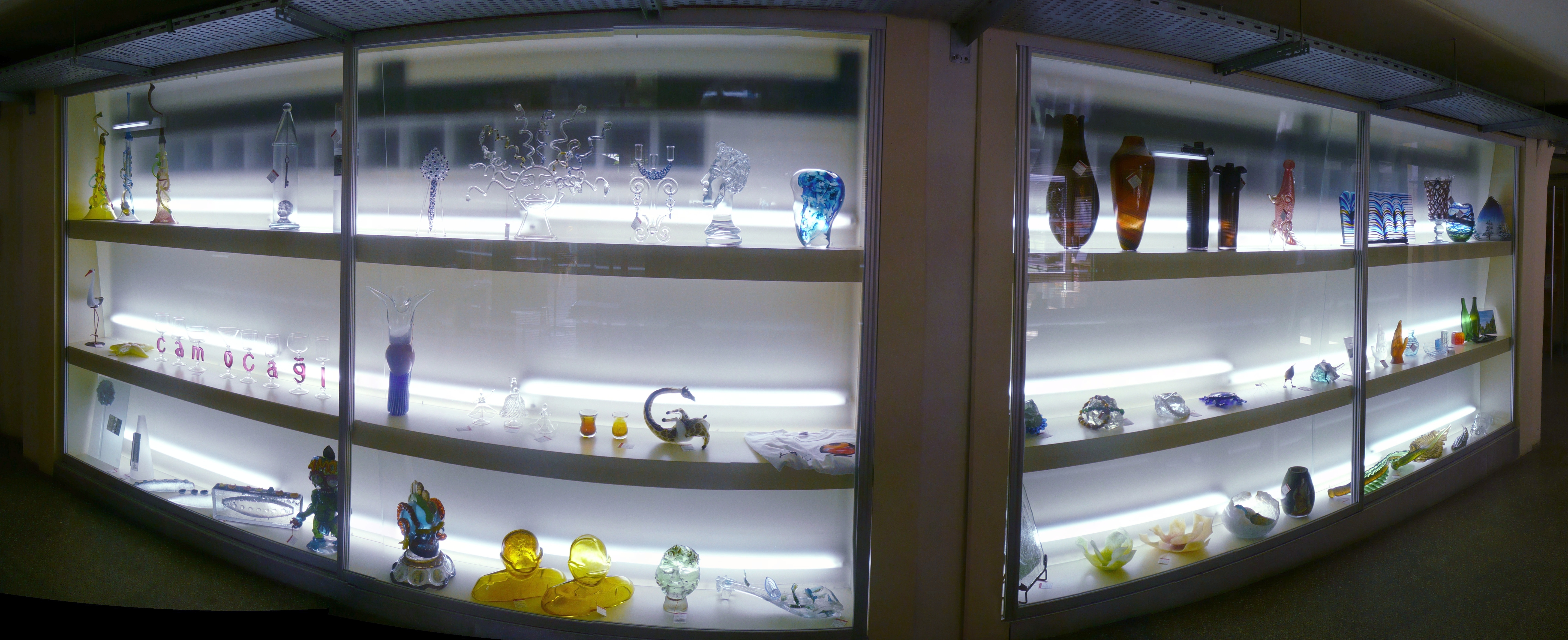 Photo from Camocağı